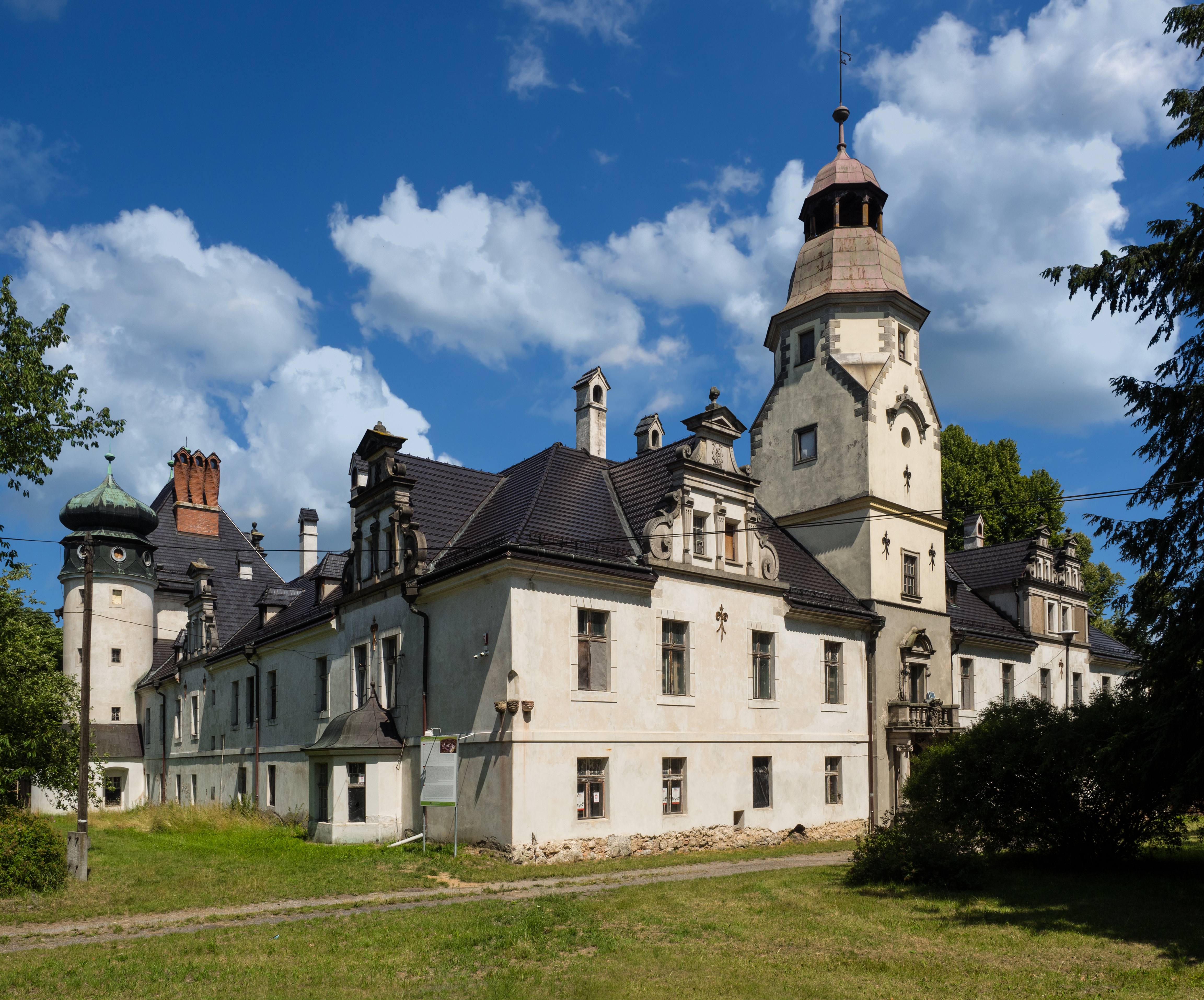 Dąbrowa palace, Poland, Opole Voivodeship